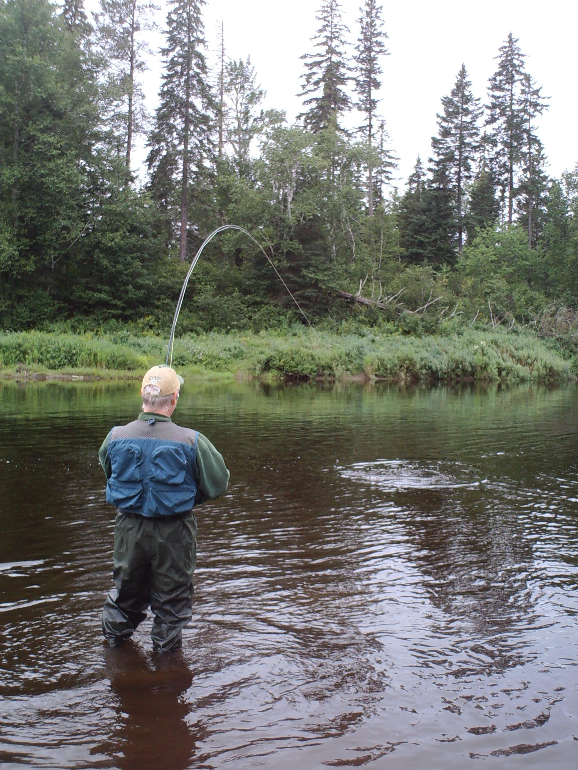 I took a new friend to the Cains river for some Atlantic salmon fishing and we both caught salmon.